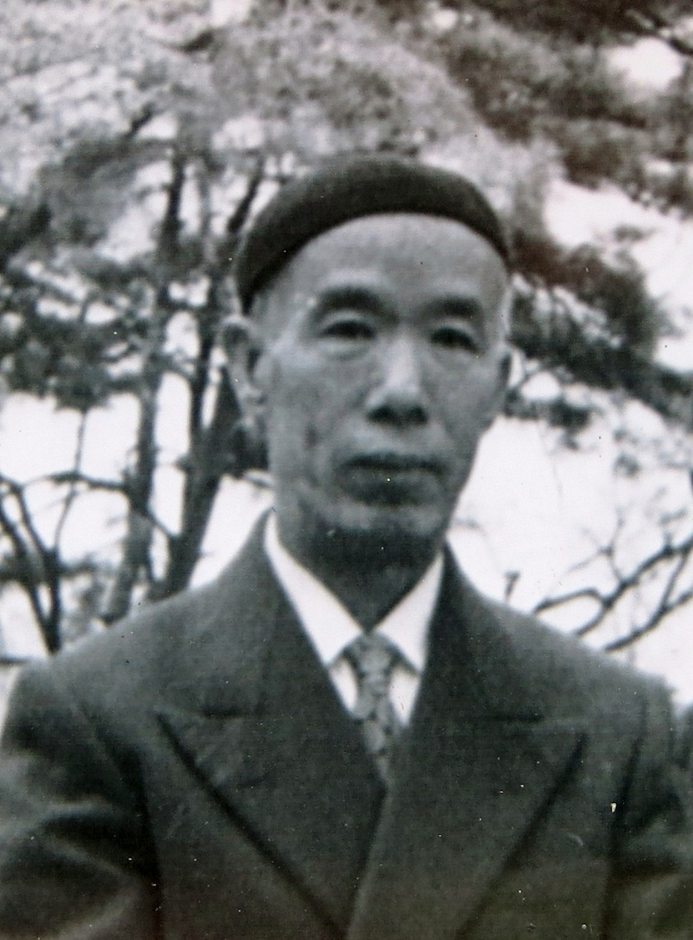 1960s Zhang FengJu in Azabu Park, Tokyo